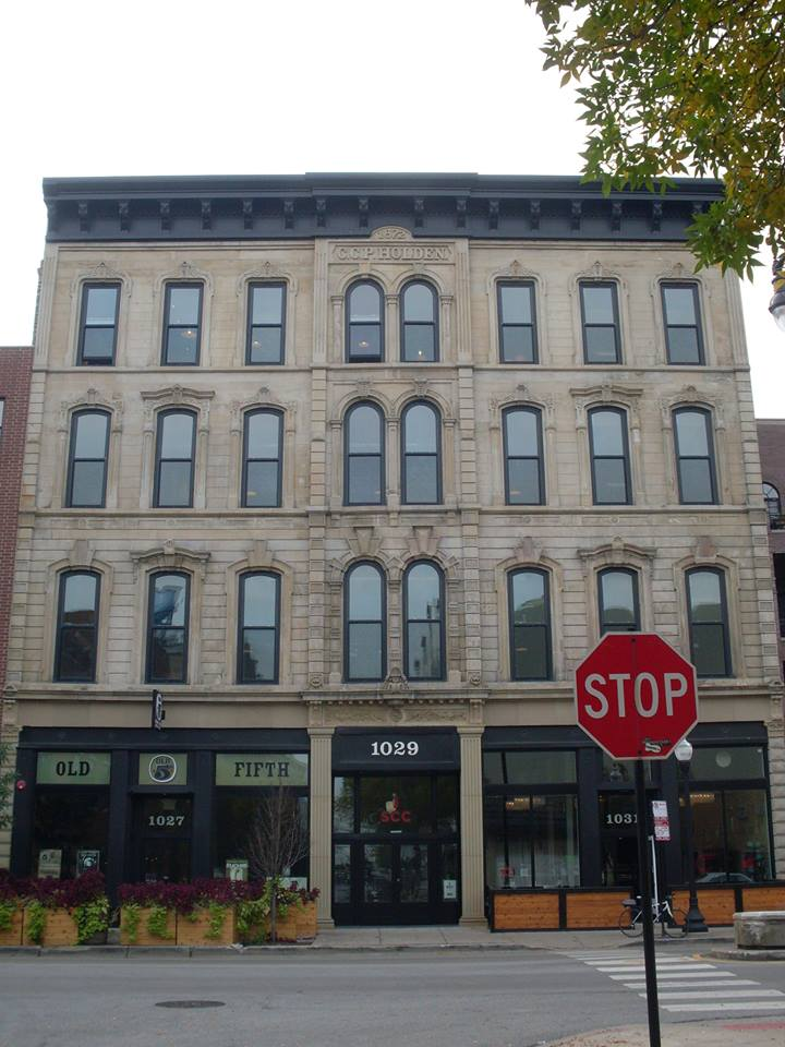 Holden Block 1872 Architect: Stephen V. Shipman Chicago Landmark